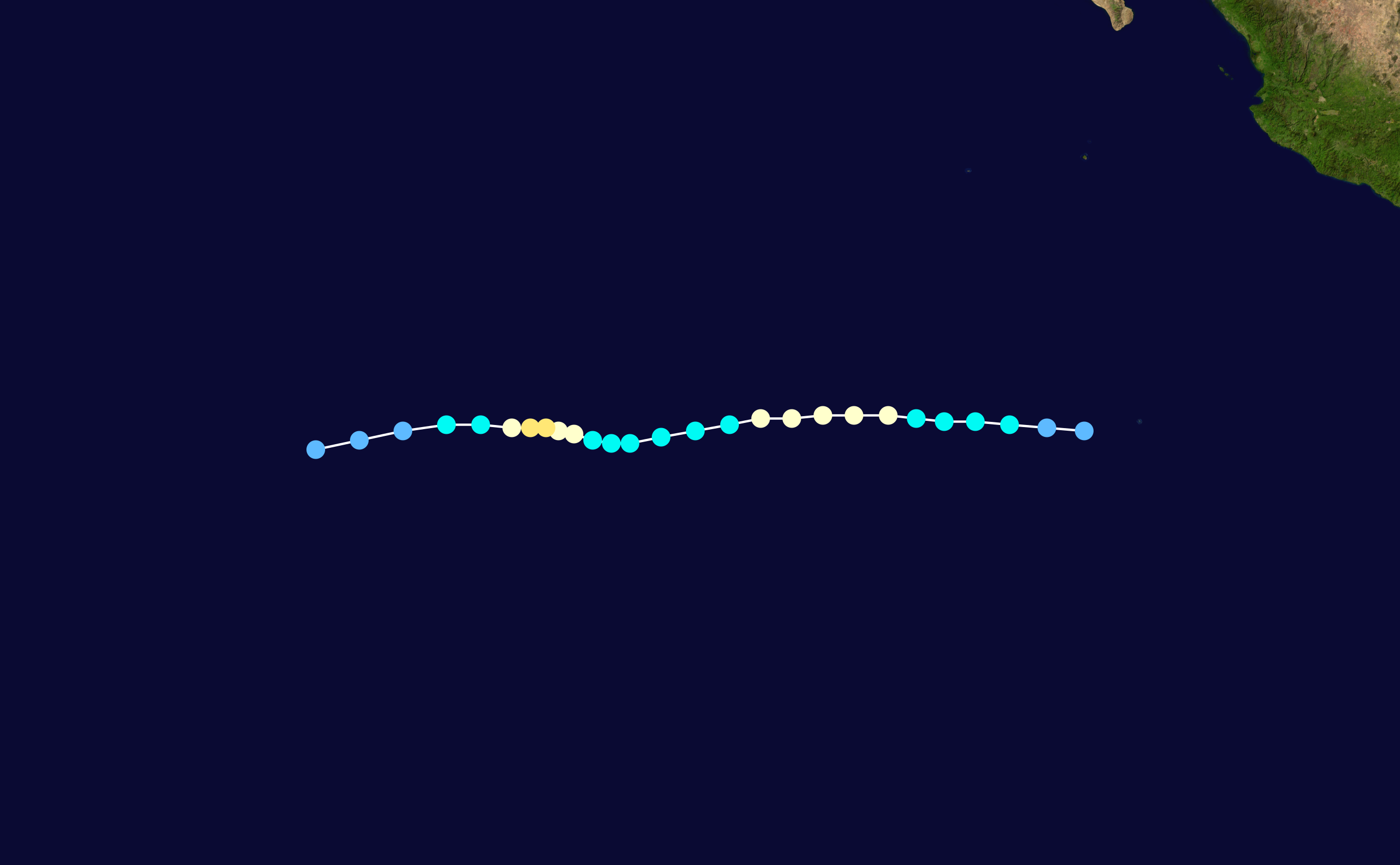 Track map of Hurricane Carlos of the 2009 Pacific hurricane season. The points show the location of the storm at 6-hour intervals. The colour represents the storm's maximum sustained wind speeds as classified in the Saffir–Simpson scale (see below), and the shape of the data points represent the nature of the storm, according to the legend below. Saffir–Simpson scale Tropical depression≤38 mph≤62 km/h Category 3111–129 mph178–208 km/h Tropical storm39–73 mph63–118 km/h Category 4130–156 mph209–251 km/h Category 174–95 mph119–153 km/h Category 5≥157 mph≥252 km/h Category 296–110 mph154–177 km/h Unknown Storm type Tropical cyclone Subtropical cyclone Extratropical cyclone / Remnant low / Tropical disturbance / Monsoon depression